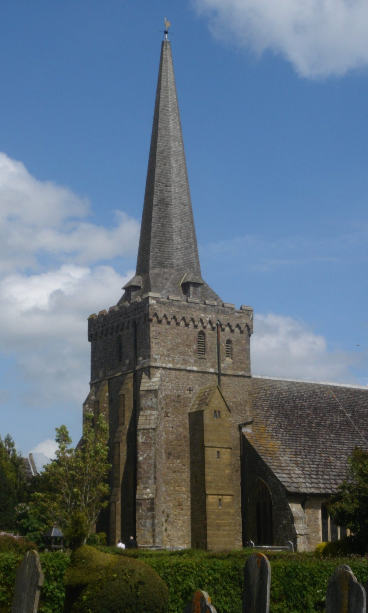 The tower and steeple of the Grade I-listed Holy Trinity Church at Cuckfield, district of Mid Sussex, West Sussex, England.